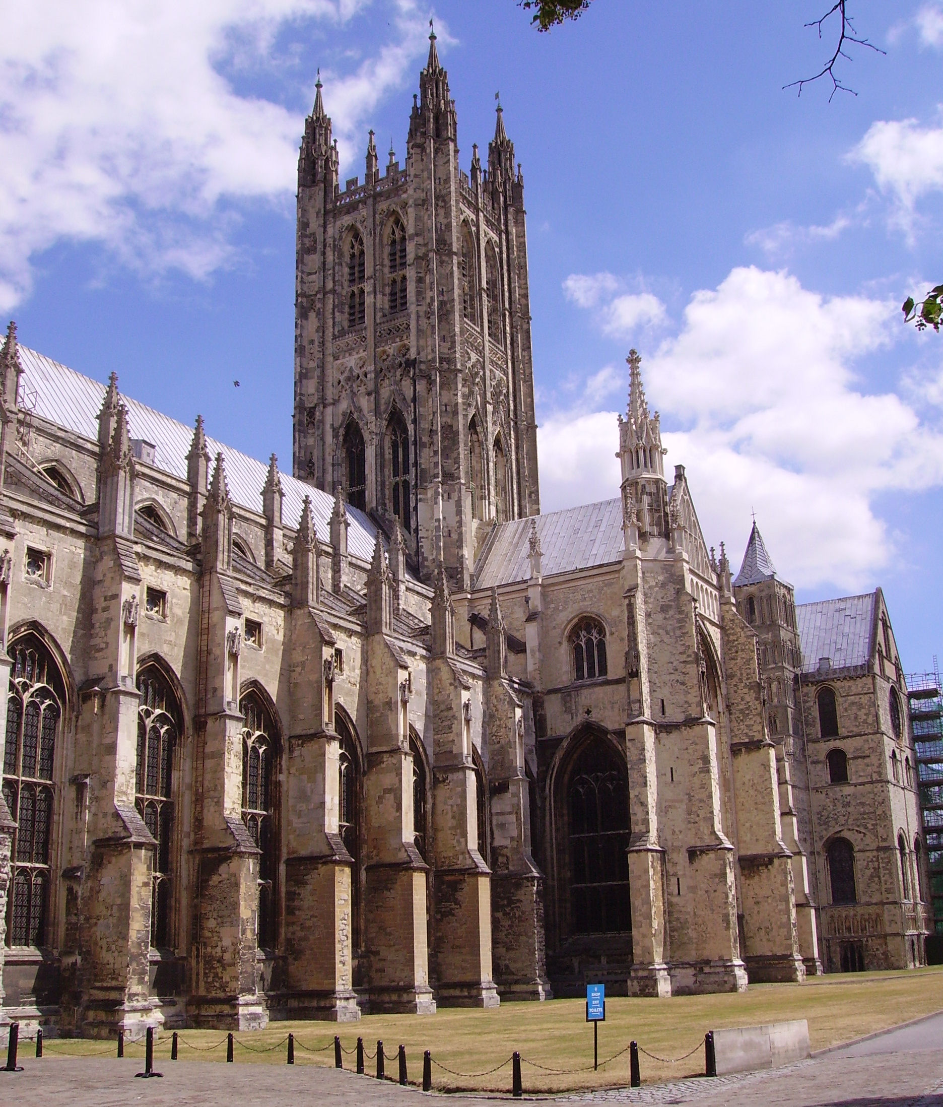 Central tower and south transept of Canterbury Cathedral, Canterbury, Kent, England